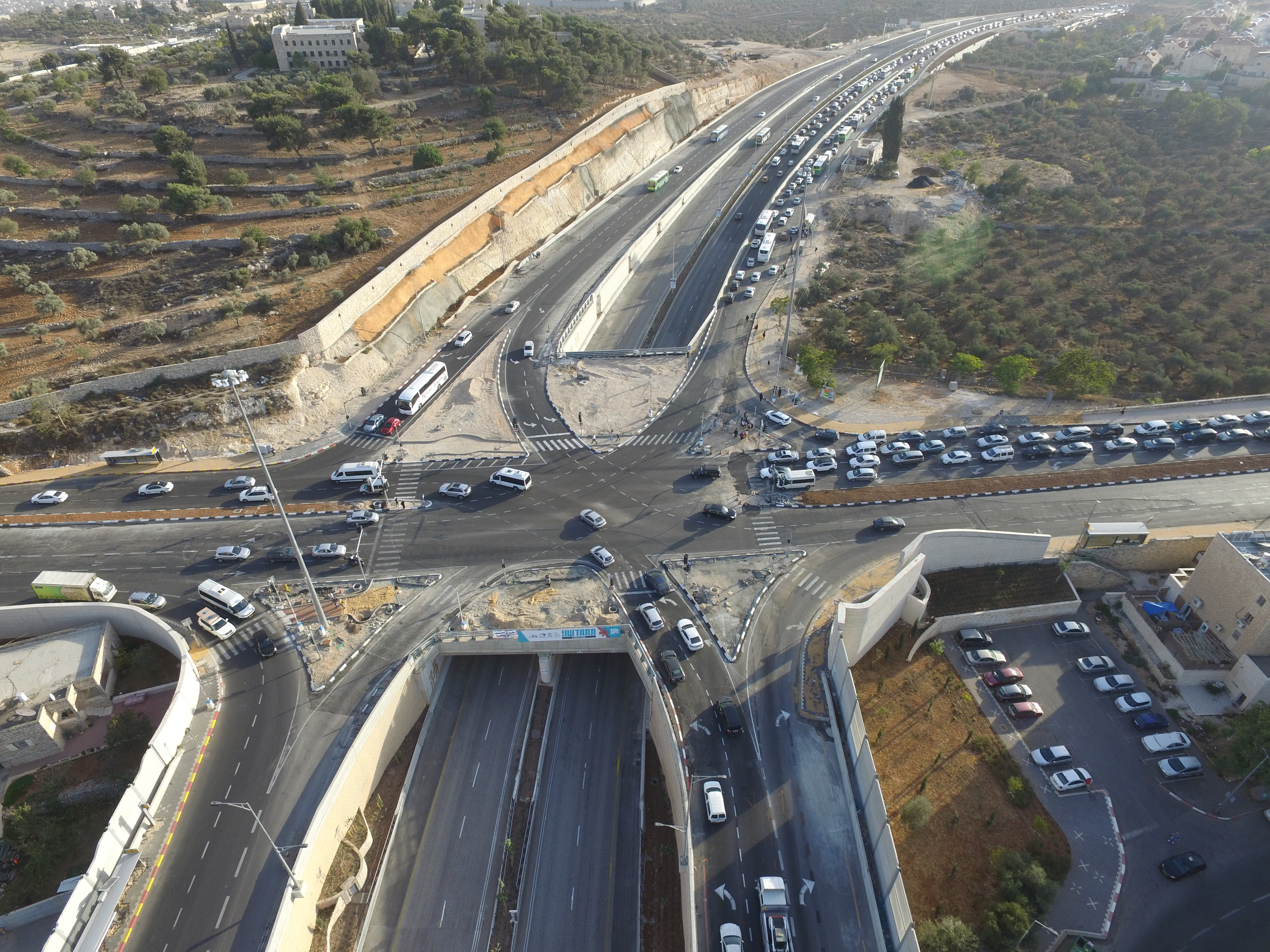 Rosmarin Interchange looking southward.Rosmarin Street runs left and right.Highway 60 is at left (Rosmarin St) and top (Tunnels Road).At bottom is Highway 50.